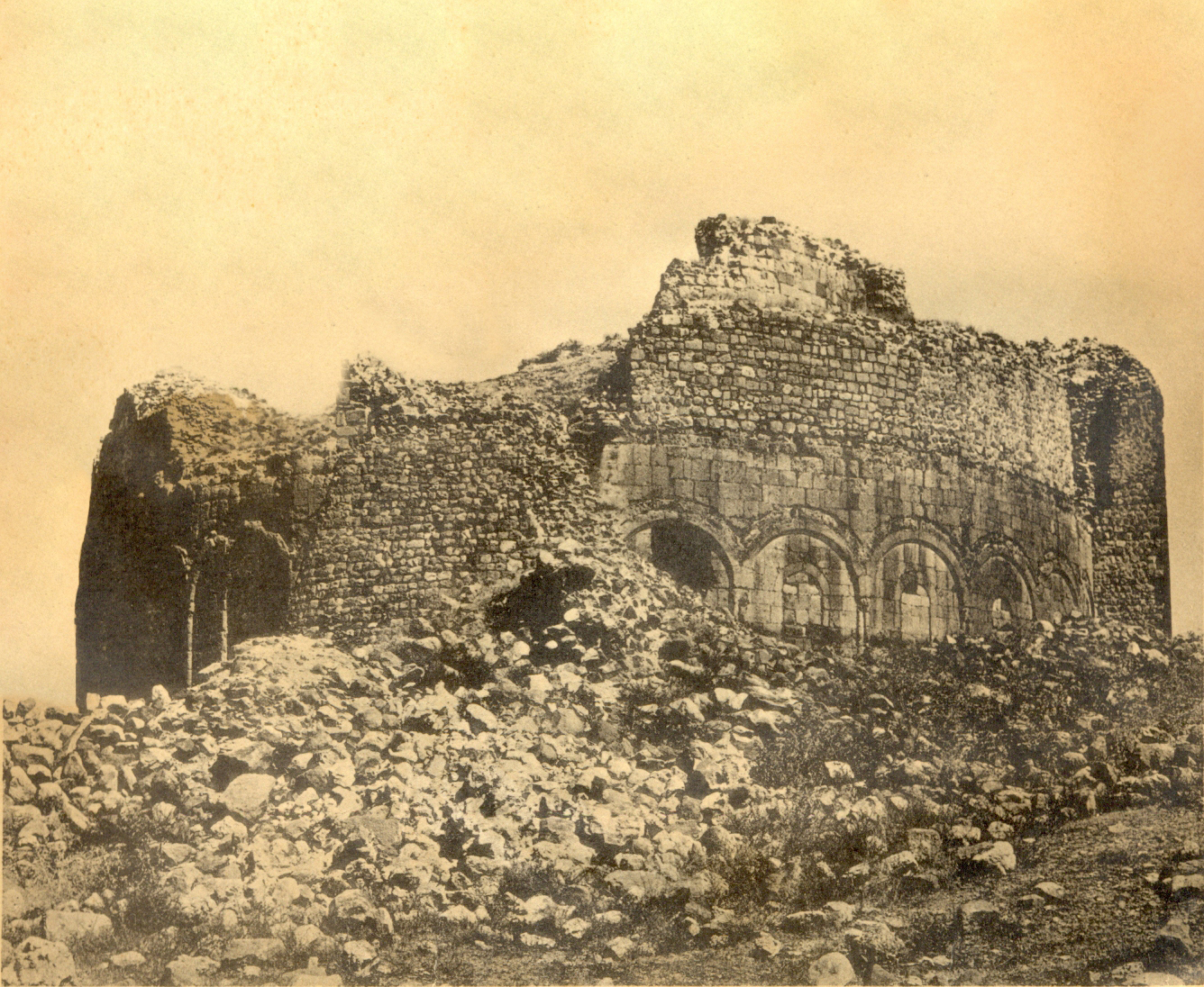 Bana cathedral. Ekvtime Takaishvili expedition 1902 year